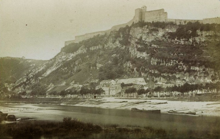 The area of Rivotte, before 1882, located in Besançon (Doubs, France)